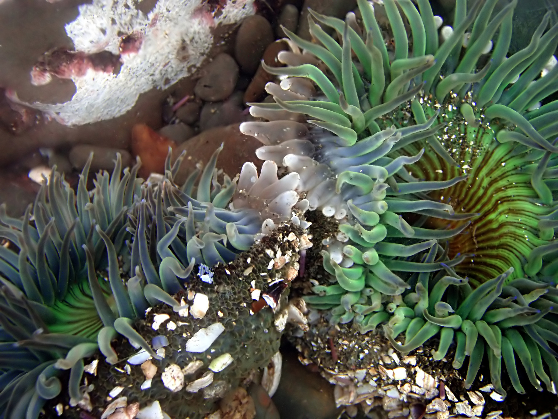 Sea Anemones,Anthopleura elegantissima are engaged in a clone war for the territory. The white tentacles are fighting tentacles. They are called acrorhagi. The acrorhagi contain concentration of stinging cells. After war ends one of Sea Anemone, should move. Sea Anemones look as plants, but they are animals and they are predators. The image was taken in Northern California Tide pools